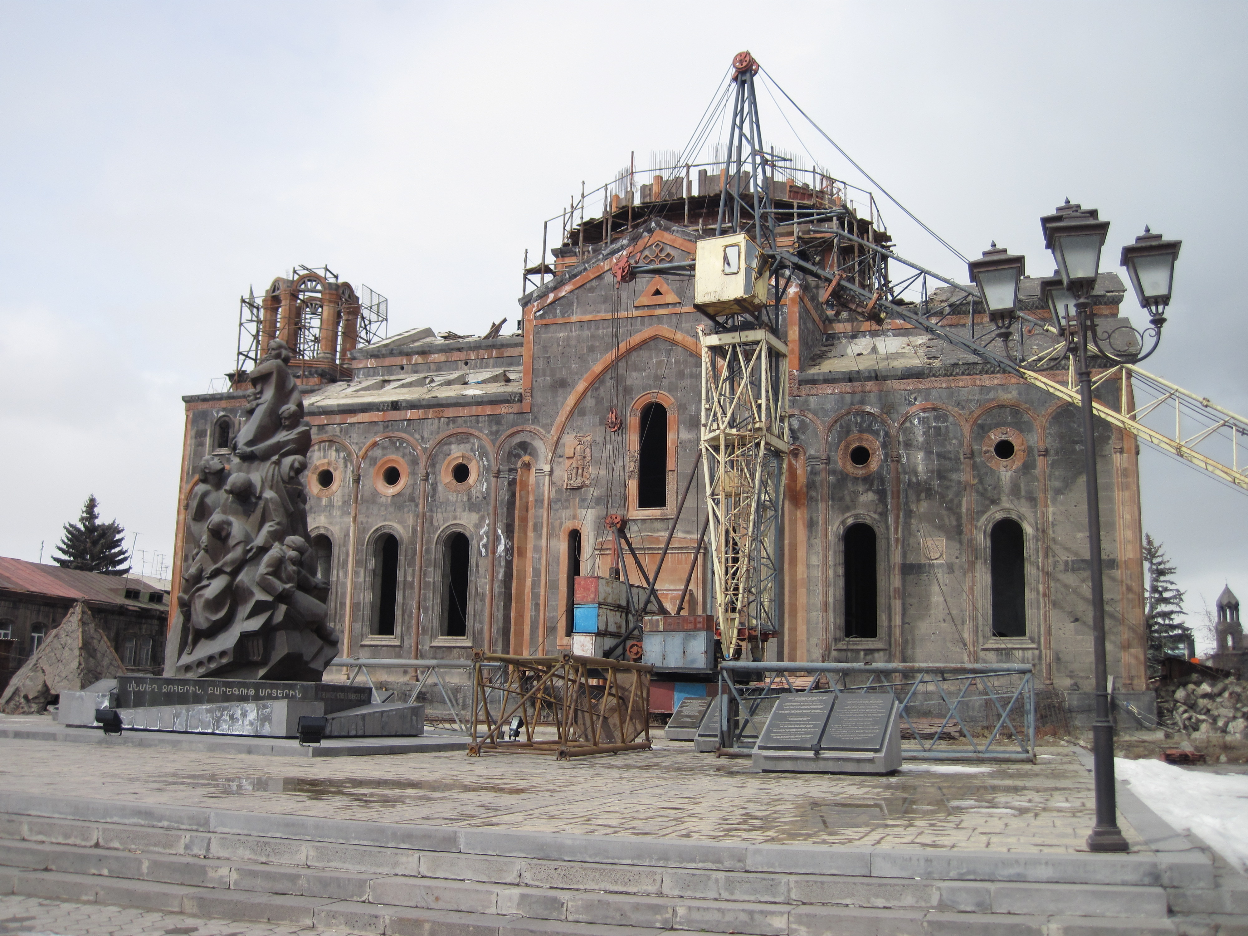 Church of the Holy Saviour in Gyumri being reconstructed.